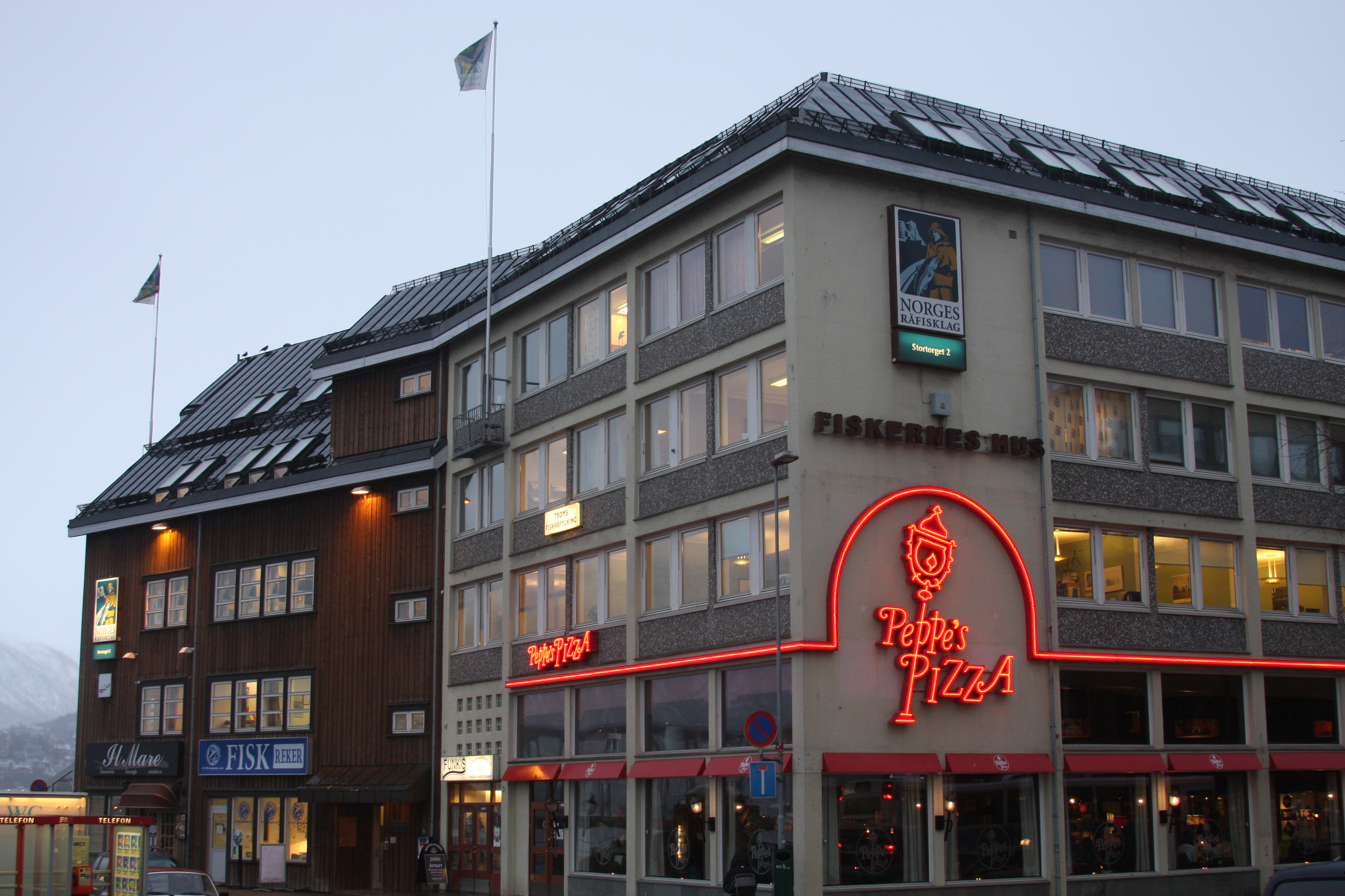 Norges raafisklag, Tromsö, Norway